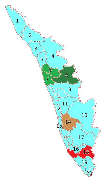 Map of Lok Sabha Constituencies of Kerala showing UPA seat sharing.